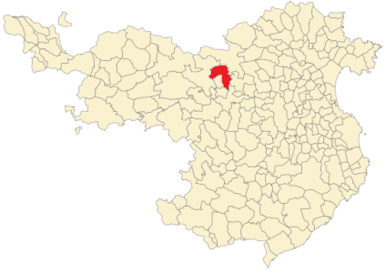 Sales de Llierca